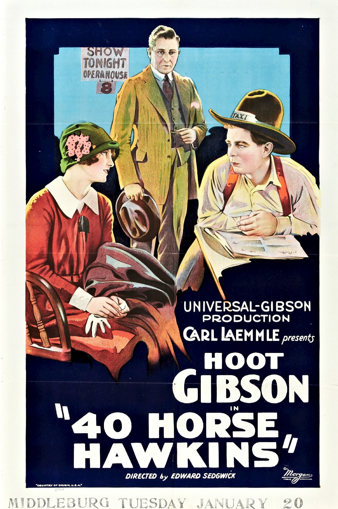 Poster for the American comedy film 40 Horse Hawkins (1924). There are no copyright marks on the poster. At bottom left is Country of origin USA and "1/20" written in pencil. At bottom right is the logo of the Morgan Litho Co., Cleveland, Ohio-they printed the poster. The information re: Middleburg was stamped or stenciled on the bottom by a local theater which received the poster.